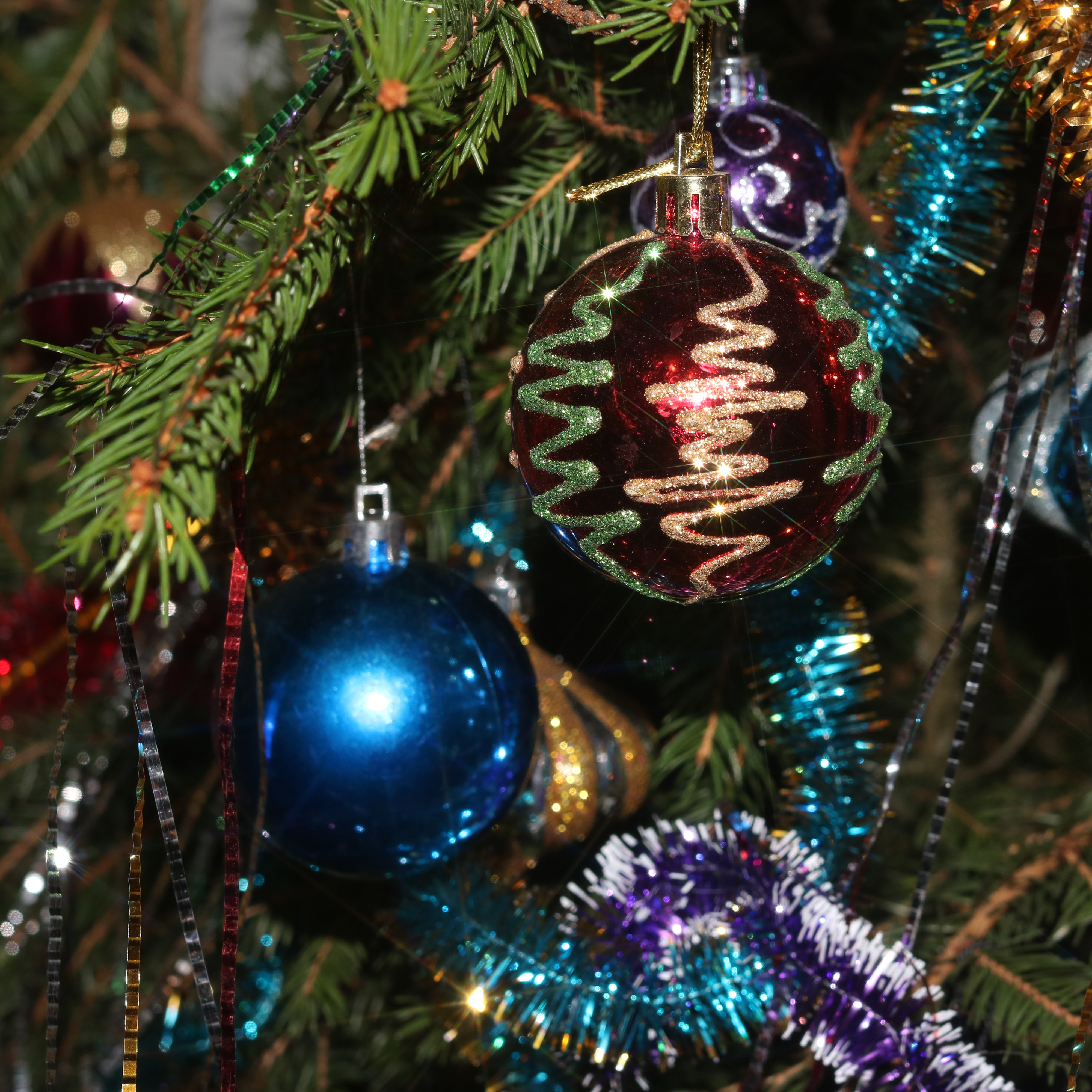 Decorations on the Christmas tree. Ukraine.This photo taken through 8-X star filter.